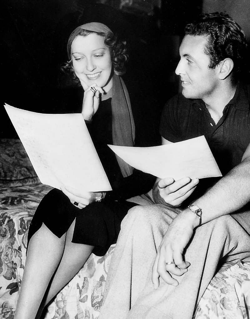 Actress Jeanette MacDonald backstage with actor Allan Jones on the set of The Firefly (1937)